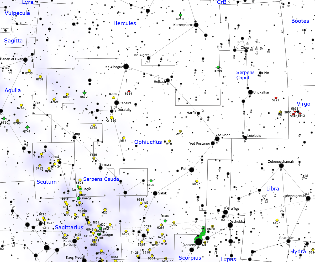 Map of Ophiuchus and Serpens